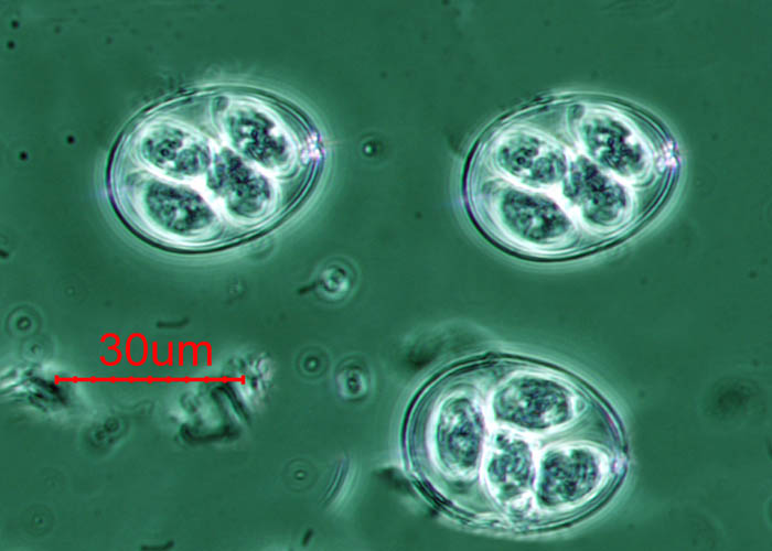 Seven species of Eimeria are known to infect chickens: E. acervulina, E. brunetti, E. maxima, E. mitis, E. necatrix, E. praecox, and E. tenella. Eimeria oocysts vary in size, with E. maxima being the largest (about 20 x 30 microns) and E. mitis the smallest (about 14 x 16 microns). The oocysts are discernable only by use of a compound microscope.